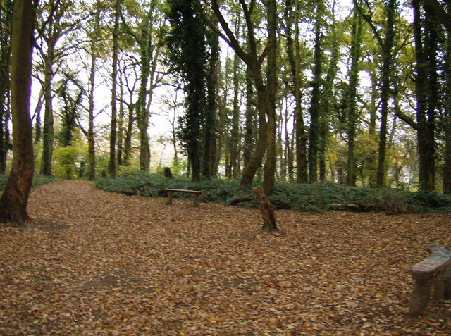 Lousehill Copse A band of green within the Reading estates is well used by the local community and offers very pleasant woodland walks just a few minutes from many homes.